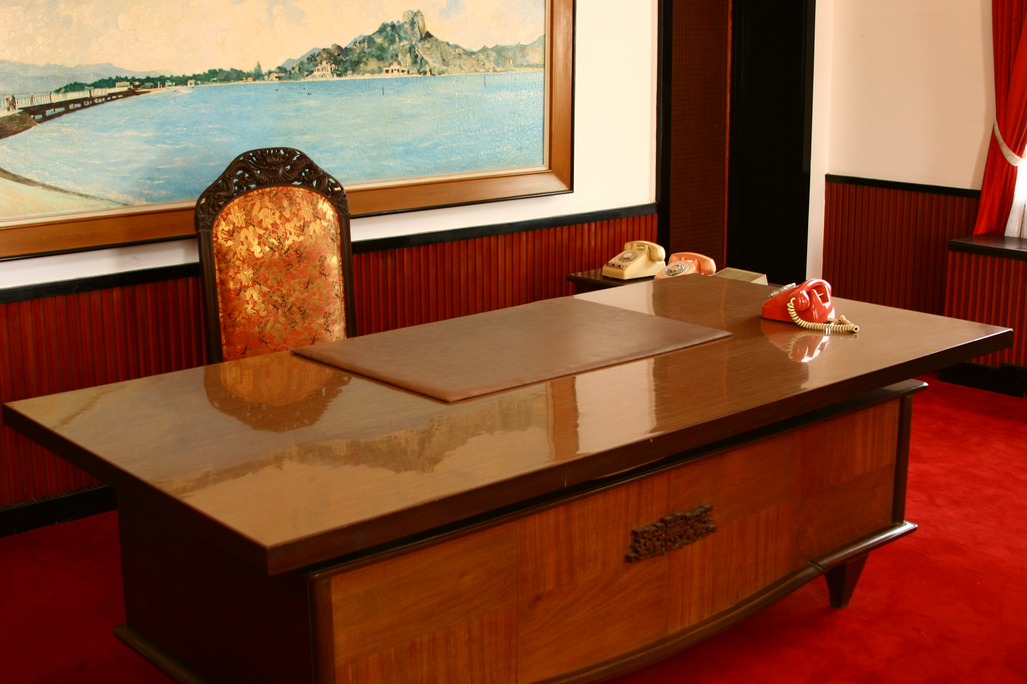 Office of the President of Repubic of Vietnam in Reunification Palace, Ho Chi Minh city, Vietnam. Behind is the painting of Nguyen Van Thieu's hometown, Ninh Thuan.